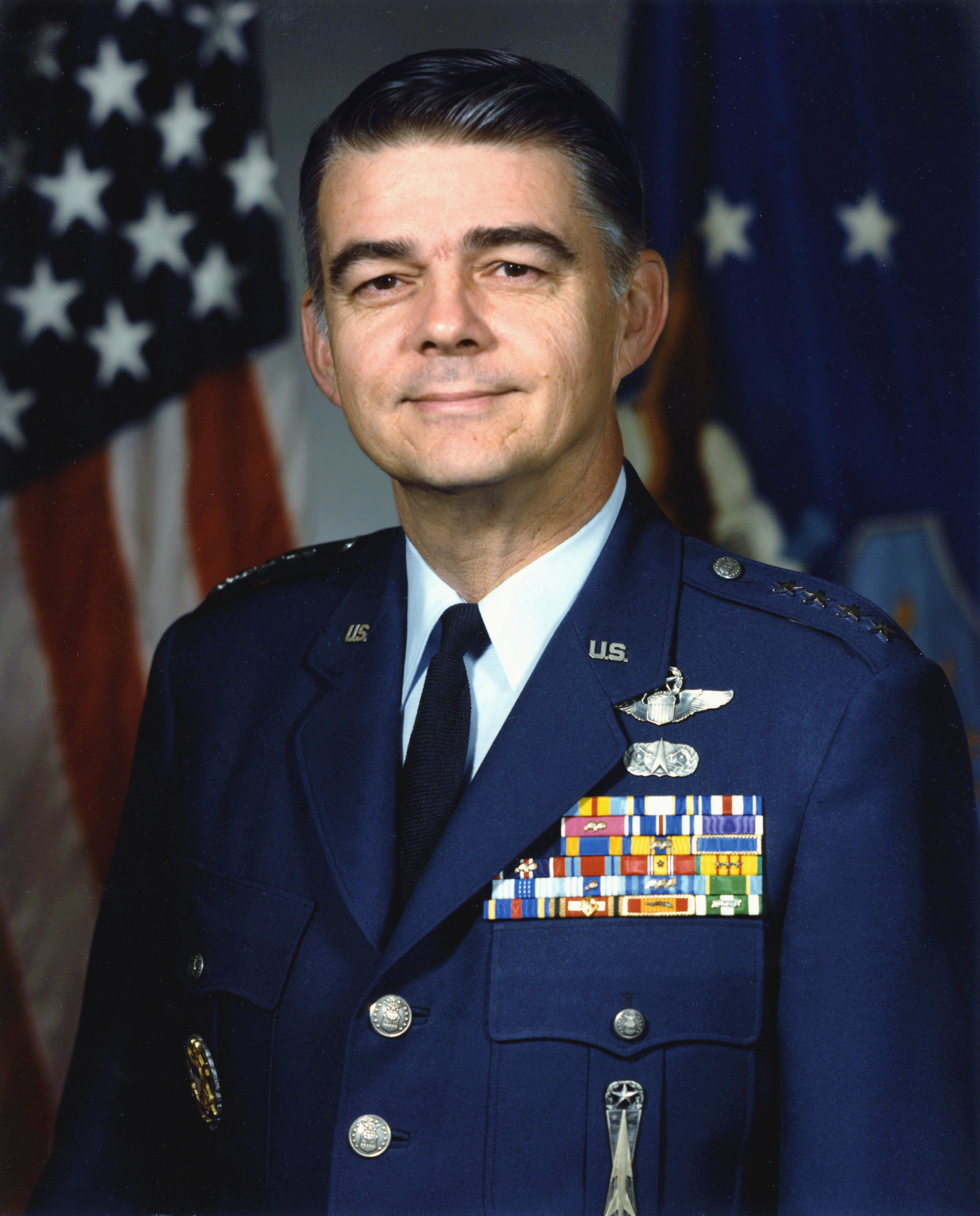 Michael Dugan, former Chief of Staff of the U.S. Air Force.